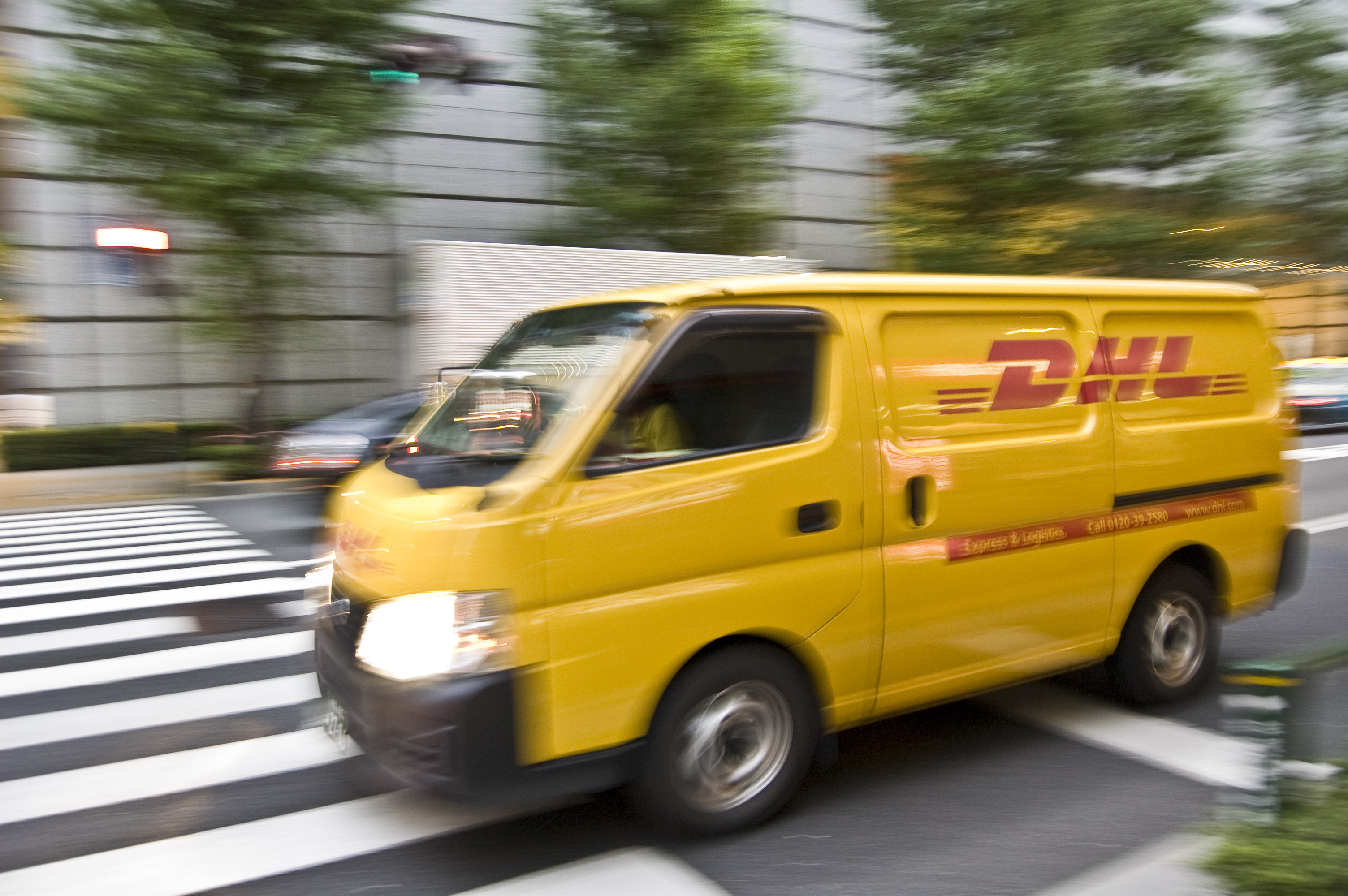 DHL on the road in Tokyo